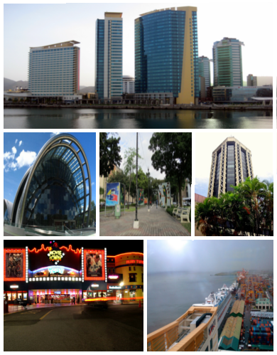 Top to bottom (left to right): (top row) Skyline of Port of Spain from Gulf of Paria; (middle row) National Academy for the Performing Arts, Independence Square (Port of Spain), Eric Williams Plaza; (bottom row) Movietowne, Port of Port of Spain City